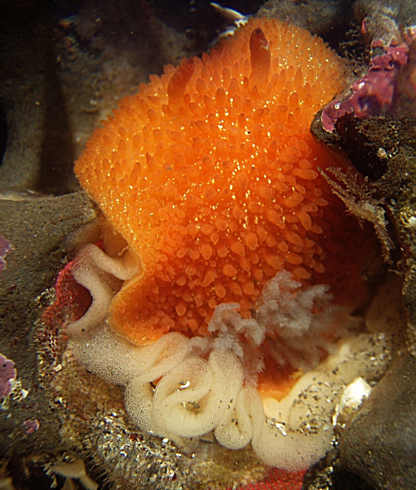 Nudibranch Acanthodoris lutea at California tide pools is laying eggs.